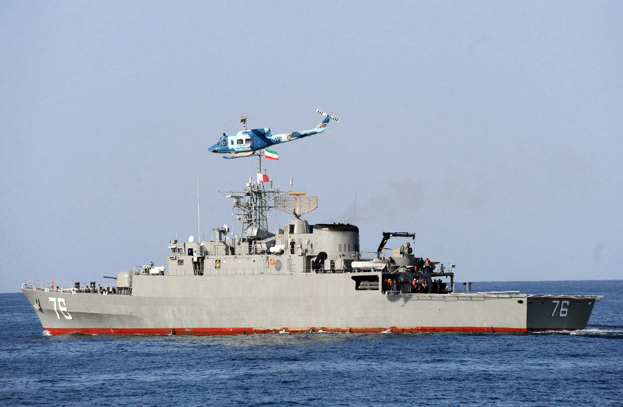 Jamaran frigate in Velayat-90 Naval Exercise.